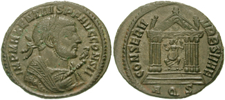 MAXENTIUS. 306-312 AD. Æ Follis (5.69 gm). Aquileia mint. Struck 309 AD. IMP MAXENTIVS P F AVG CONS II, laureate bust right, wearing imperial mantle and holding eagle-tipped sceptre CONSERV VRB SVAE, Roma seated facing, head left, in hexastyle temple, holding globe and sceptre; AQS. RIC VI 125.